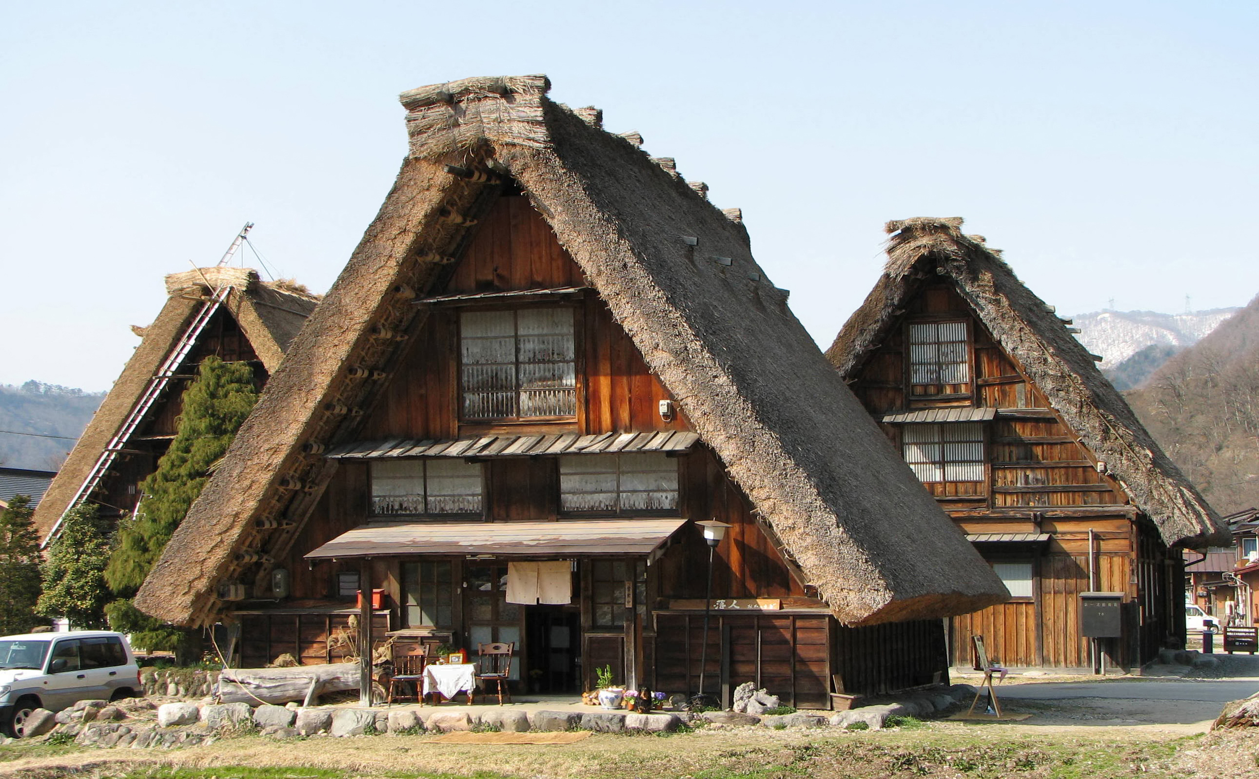 Gassho-zukuri farmhouse, Ogimachi Village, Shirakawa-go, Gifu Prefecture, Japan